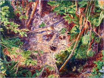 Detail from John Everett Millais' painting Ophelia showing what some believe is a skull.